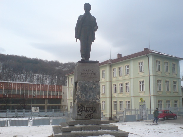 no